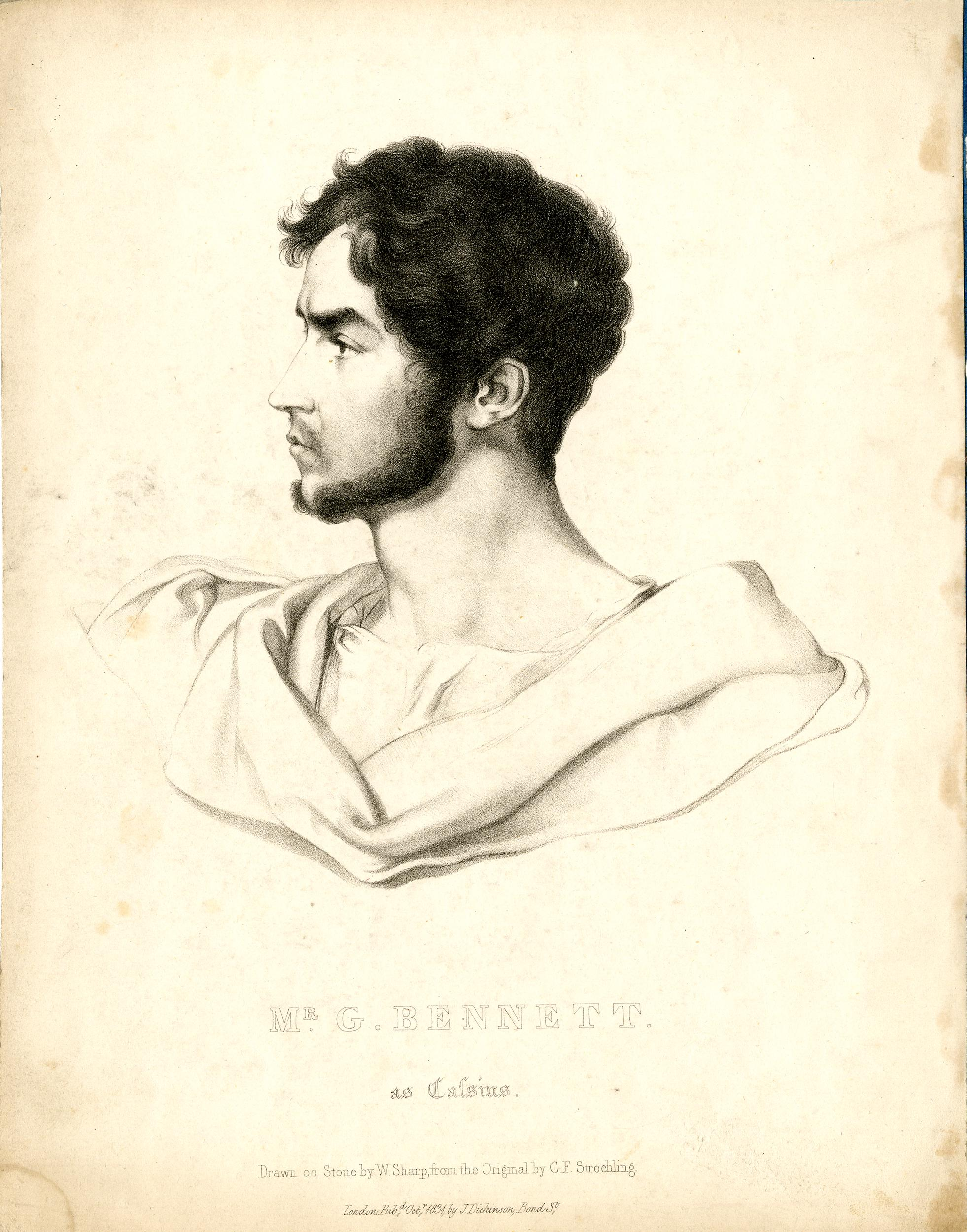 Portrait of George Bennett, as Cassius in 'Julius Caesar';bust, to the left, with short beard; a vignette. 1831 Lithograph